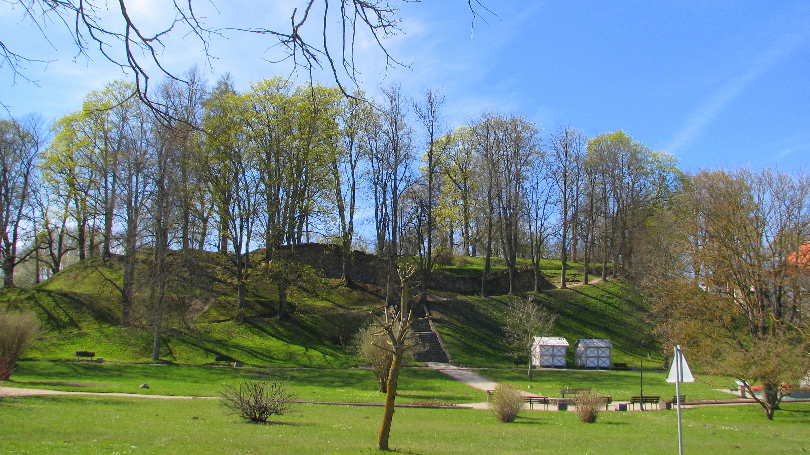 Kandava Castle hill, Latvia